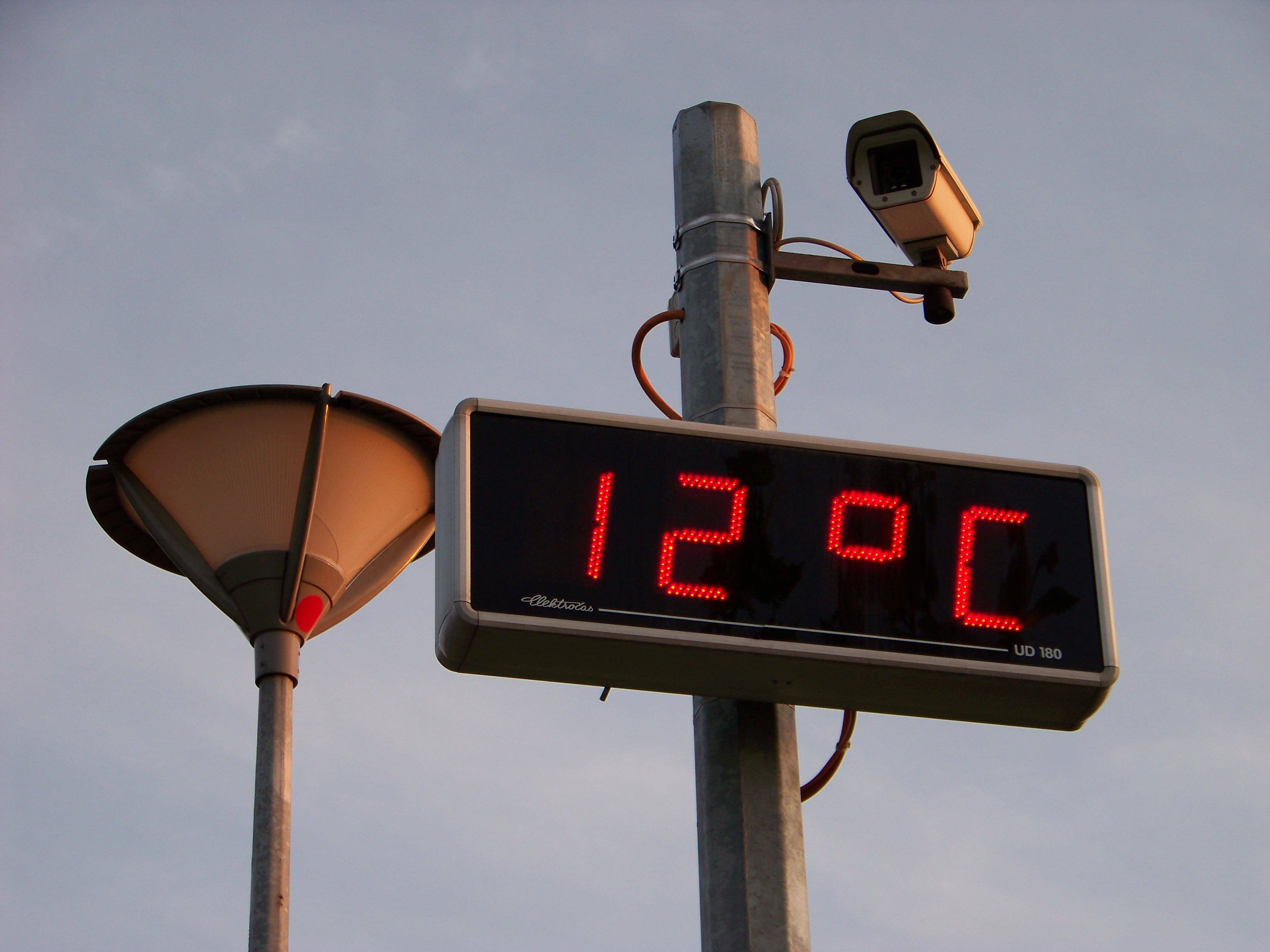 Prague-Prosek. Vysočanská street, "Prosek" bus stop, a time and temperature display and a dispatching camera.